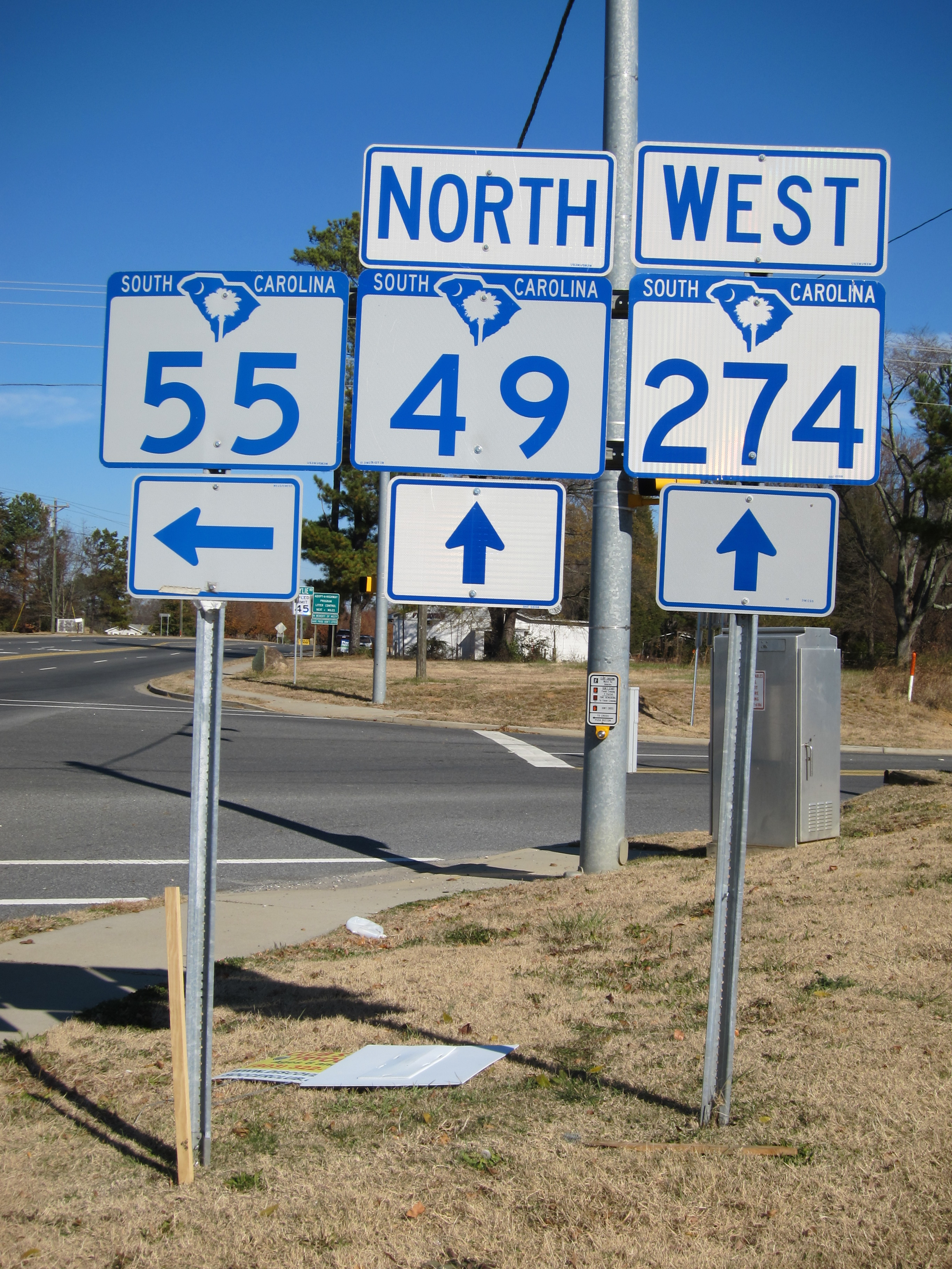 Left onto SC 55, from SC 49/274 (Charlotte Highway) in Lake Wylie, South Carolina.